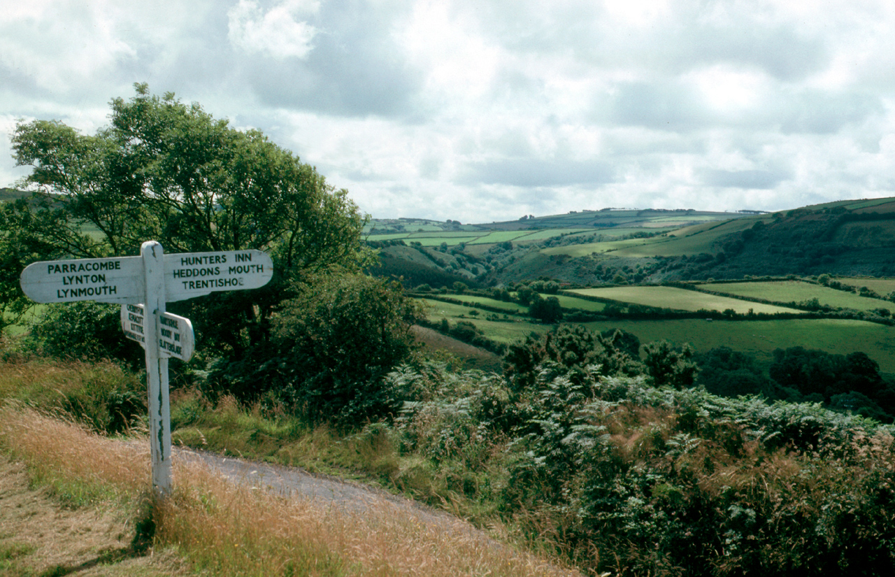 Exmoor landscape in North Devon, Great Britain